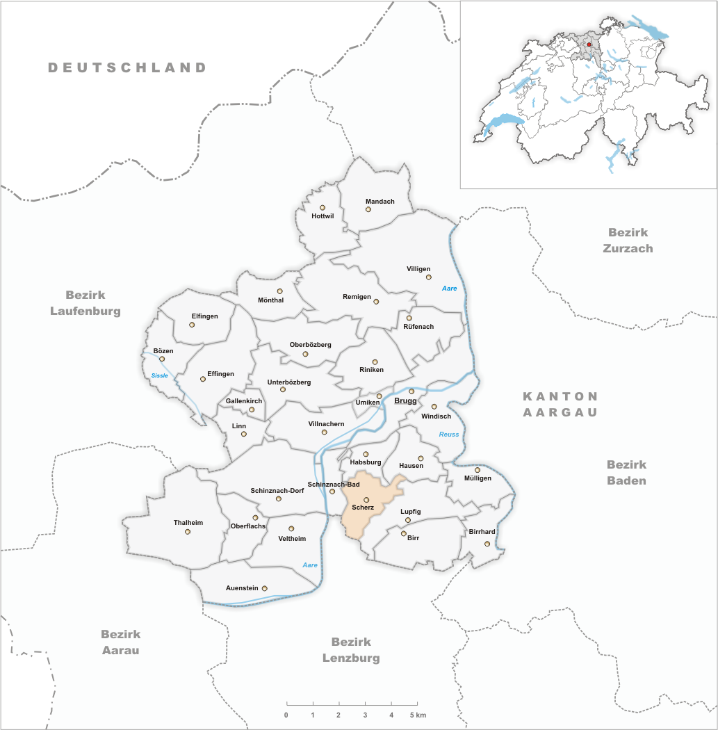 Municipality Scherz